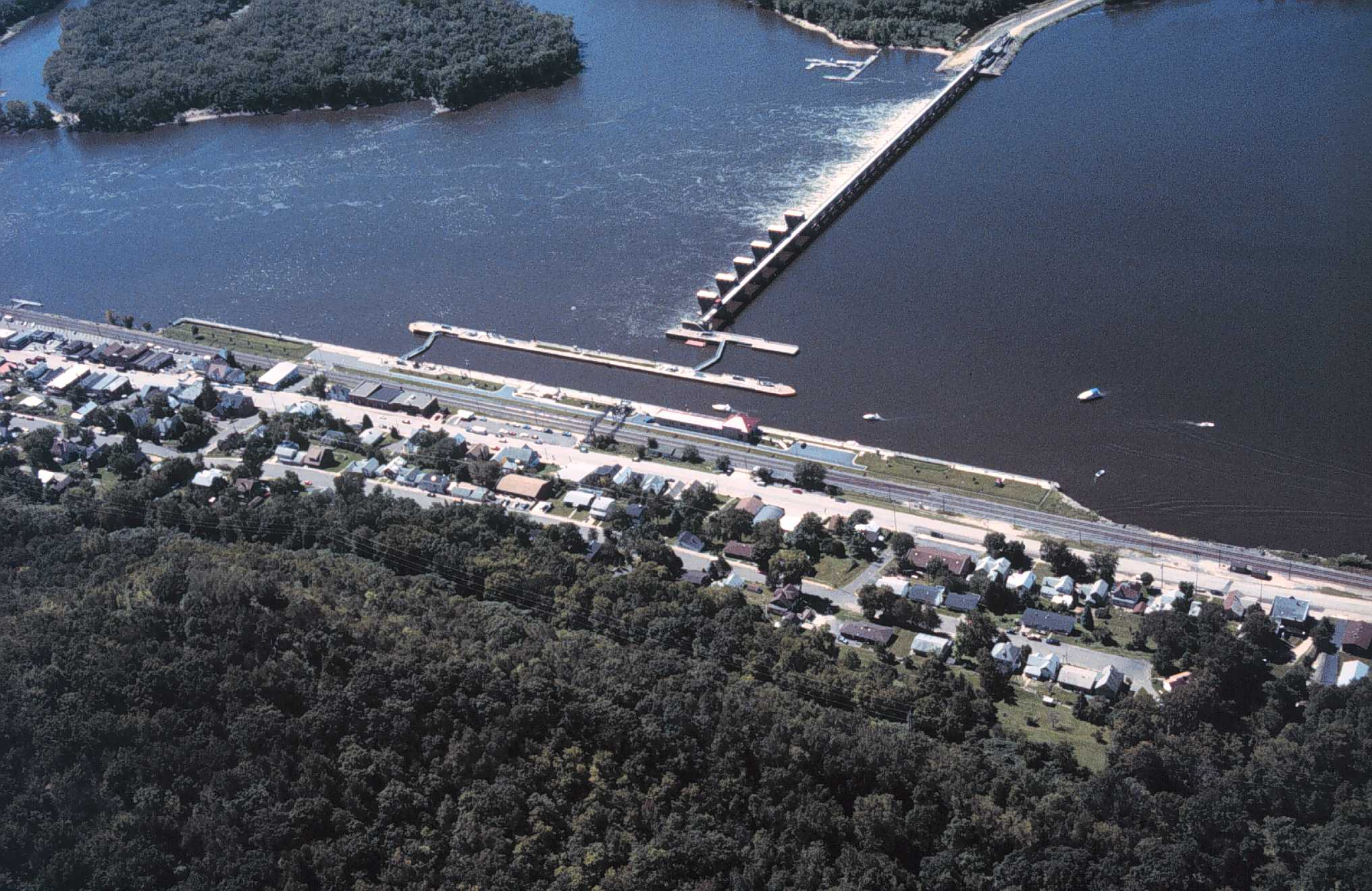 Mississippi River Lock and Dam number 4 near Kellogg, Minnesota